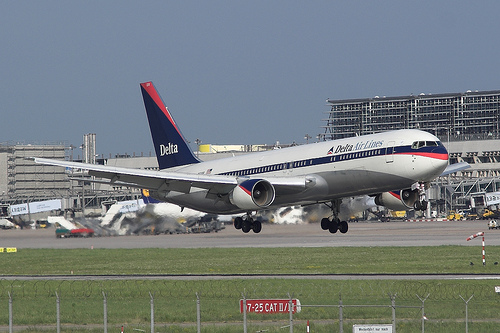 Delta Air Lines Boeing 767-300 landing at Stuttgart Airport, Germany.